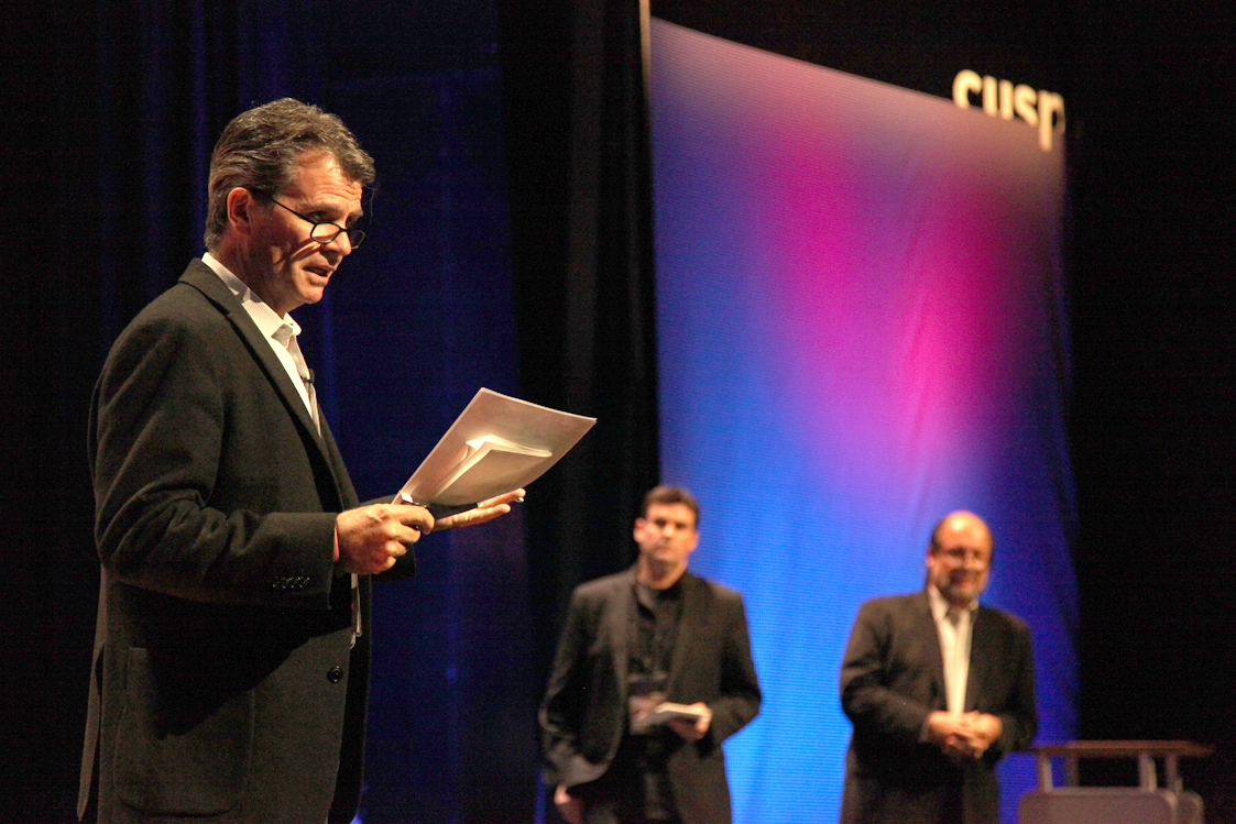 Cusp Conference Stage